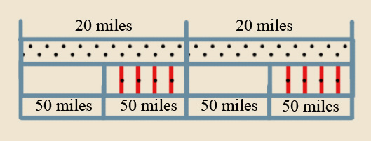 Reproduction of the bar scale of the tondo e quadro ("circle and square") depicted in the 1436 atlas of Venetian captain Andrea Bianco, to be used for the Rule of Marteloio. The length of the bar scale is two unit squares of the quadro grid. A unit square has length 20 miles or 100 miles, depending on whether one chooses the top or the bottom scale bar. Top bar (20 miles-per-square) has a black dot for each mile. Bottom bar (100 miles-per-square) denotes sub-units of 50 miles and red lines for each 10 miles.